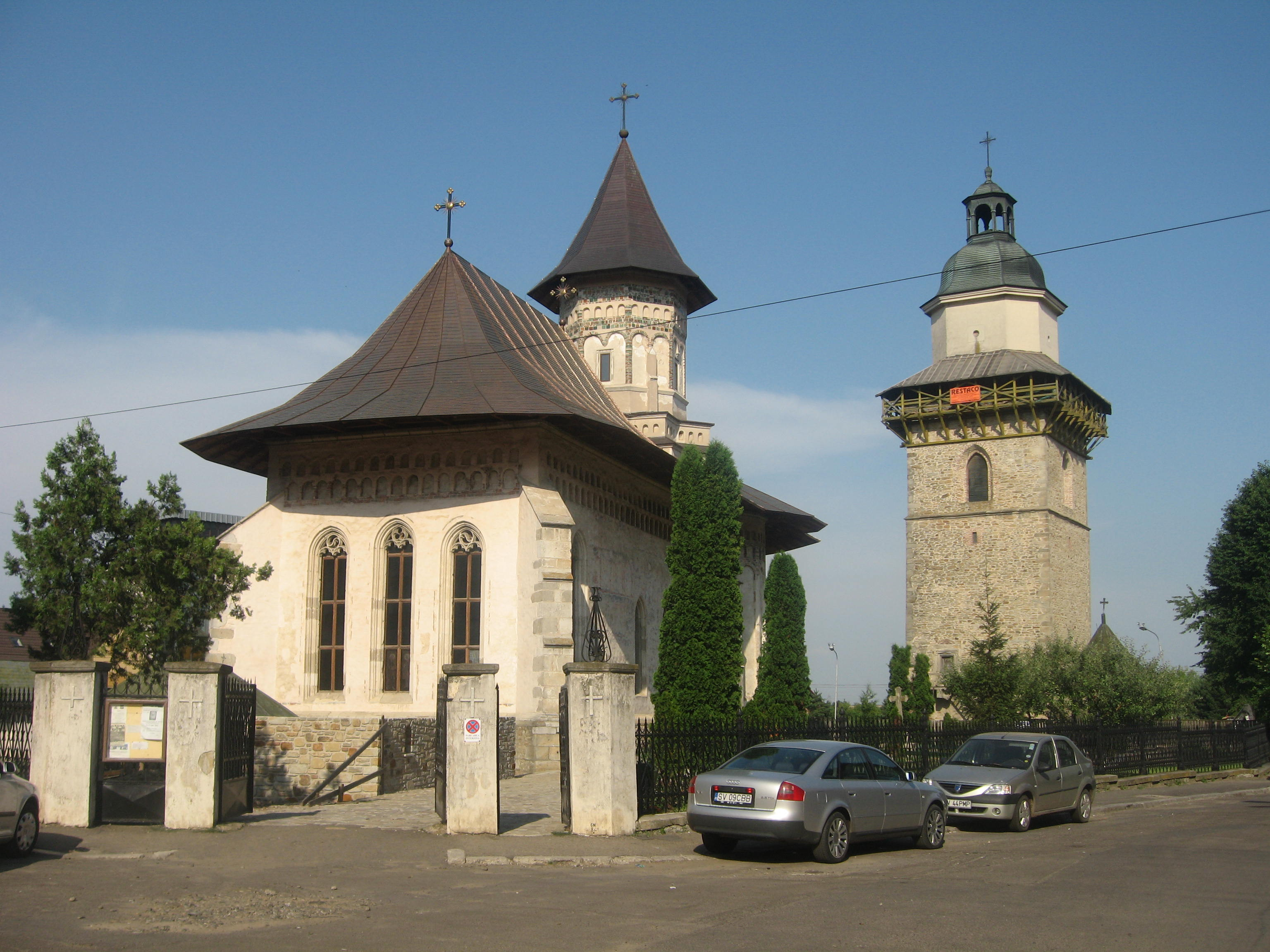 St. Demetrius Church in Suceava.